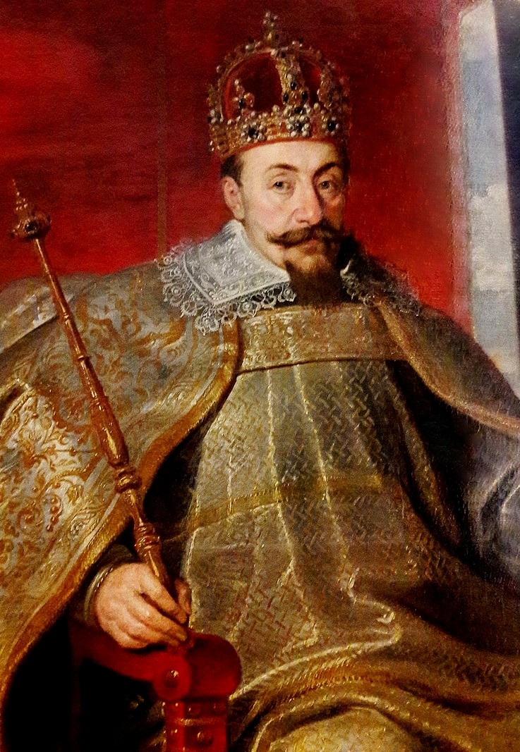 Portrait of Sigismund III Vasa in coronation robes (detail)